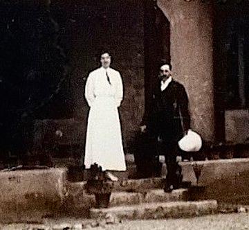 Aeneas Francon Williams (right) standing on the steps of his residence, Wolseley House, Kalimpong 1914